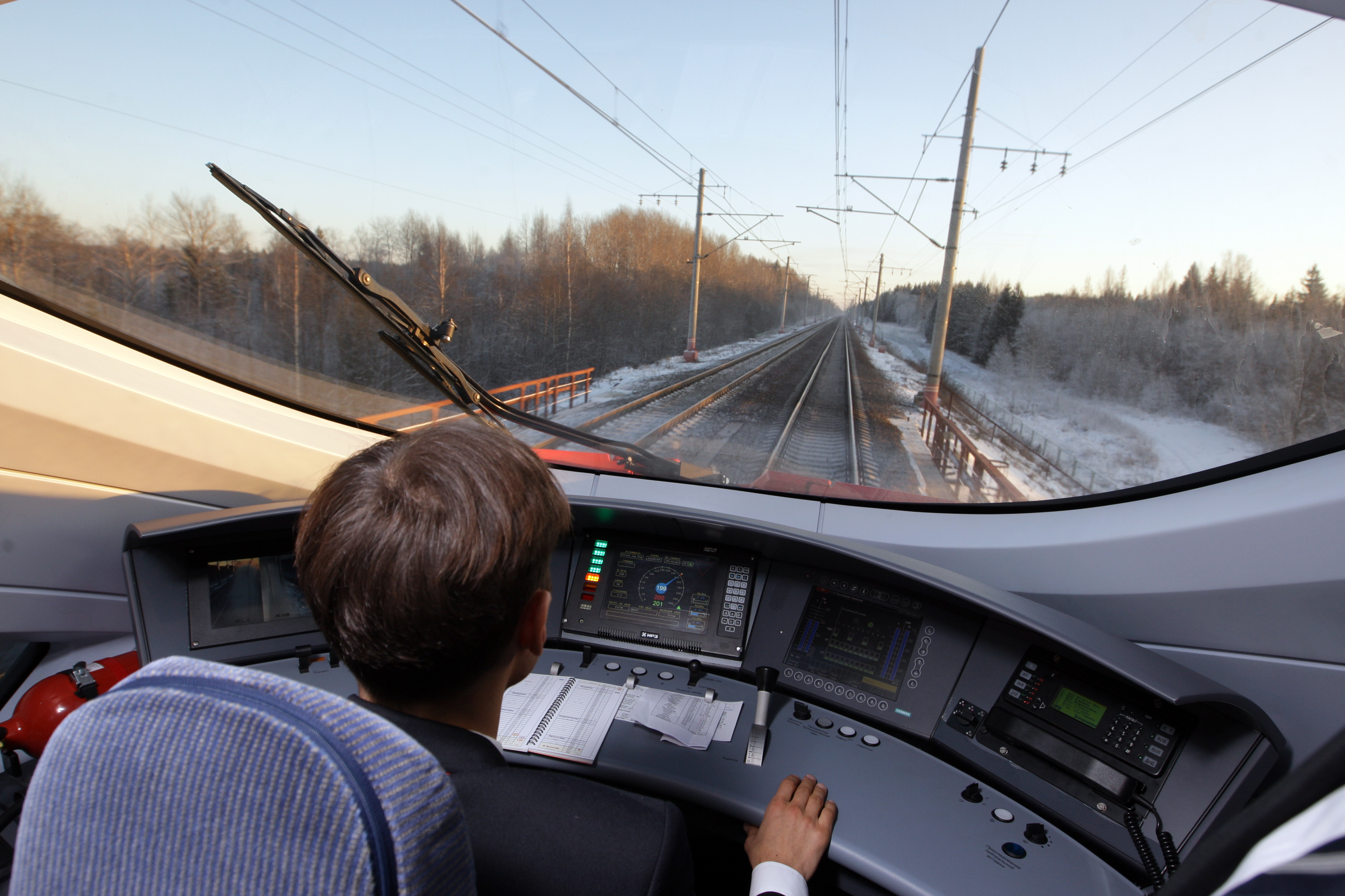 Prime Minister Vladimir Putin returned to Moscow from his trip to St Petersburg on a new high-speed train Sapsan